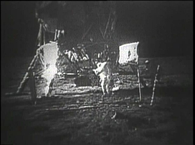 Apollo 11 moonwalk image after SSTV scan conversion. Text from Comparison photographs of the Apollo 11 Lunar Television: GET 110:41:48 Buzz (left) and Neil (right) as Buzz gives a reading on his oxygen levels. Parkes – scan converted video at Houston. Scan converted picture. Kinescope of TV at Houston. TV still taken from Mark Gray’s Spacecraft Films DVD set of the NASA kinescope archive of the International TV Broadcast as recorded at Houston. Text from The Search for the original Apollo 11 Moonwalk TV tapes: The same TV frame as was broadcast to viewers around the world. The NASA telerecording has cropped the top of the picture.